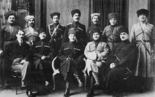 Delegation of representatives of the Mountain Republic at the Versailles Peace Conference, Turkey, 1920.